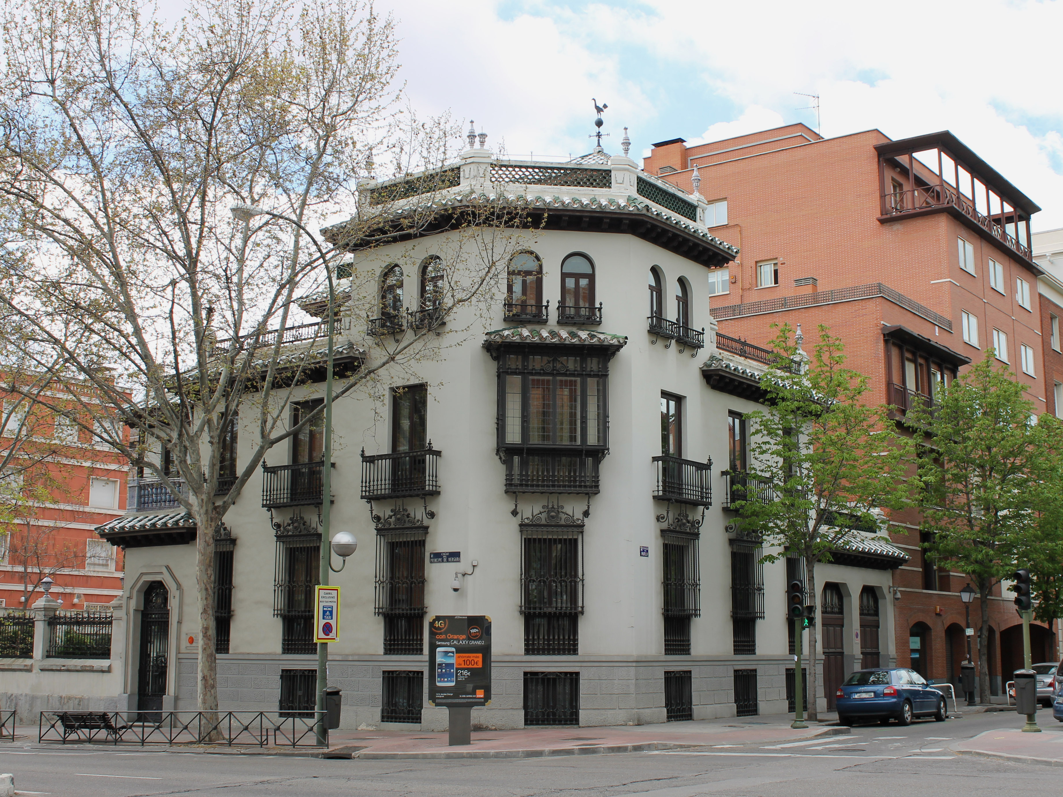 The headquarters of Real Instituto Elcano, at 51 Calle del Príncipe de Vergara (street) in Salamanca district in Madrid (Spain). Building was designed in 1925 by Fernando de Escondrillas y López de Alburquerque and built from 1925 to 1926 as a mansion for Mr. Francisco Taviel de Andrade.